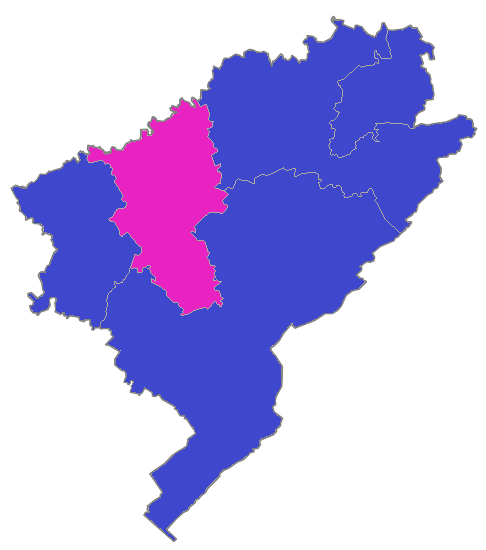 French legislative election in Doubs, 2002